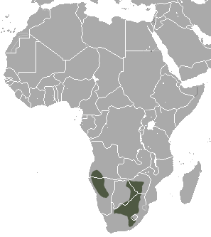 Southern African Hedgehog (Atelerix frontalis) range